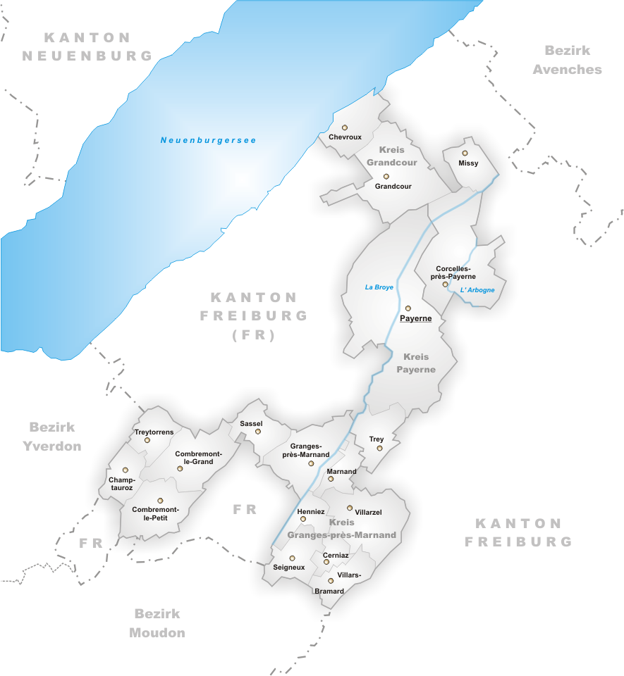 Municipalities of District Payerne until 2007